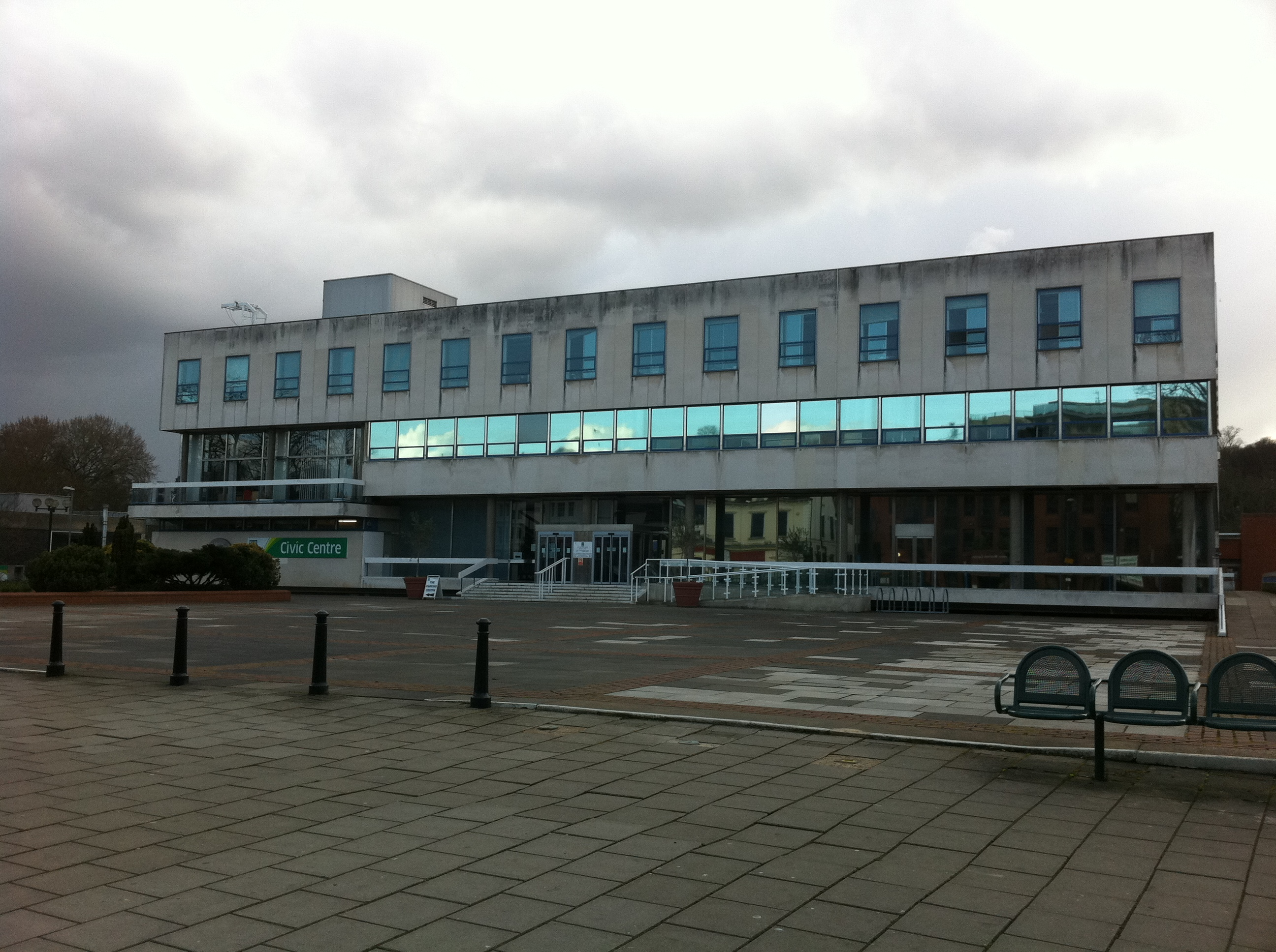 Dacorum Civic Centre